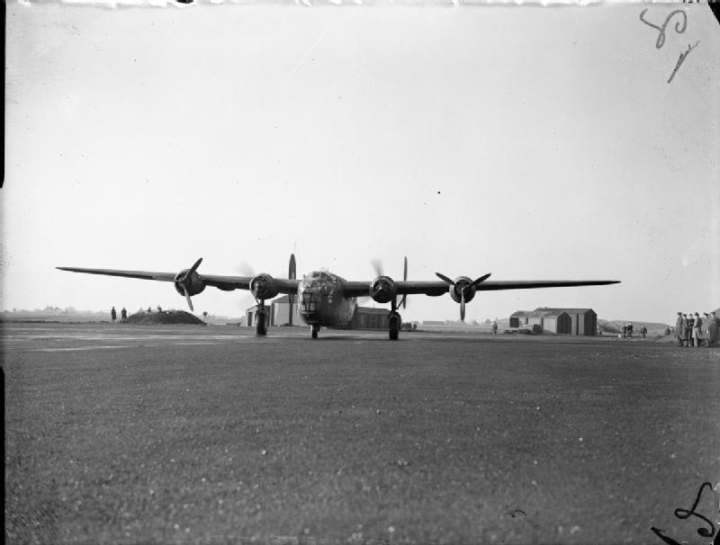 Royal Air Force Ferry Command, 1941-1943. The Prime Minister's aircraft, Consolidated Liberator Mark II, AL504 "Commando", VIP transport aircraft of No. 24 Squadron RAF, taxying at Lyneham, Wiltshire, with Winston Churchill and the Chiefs of Staff on board, after returning from the Casablanca Conference.